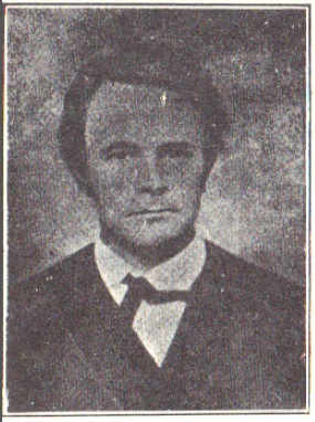 Portrait of poet James De Ruyter Blackwell